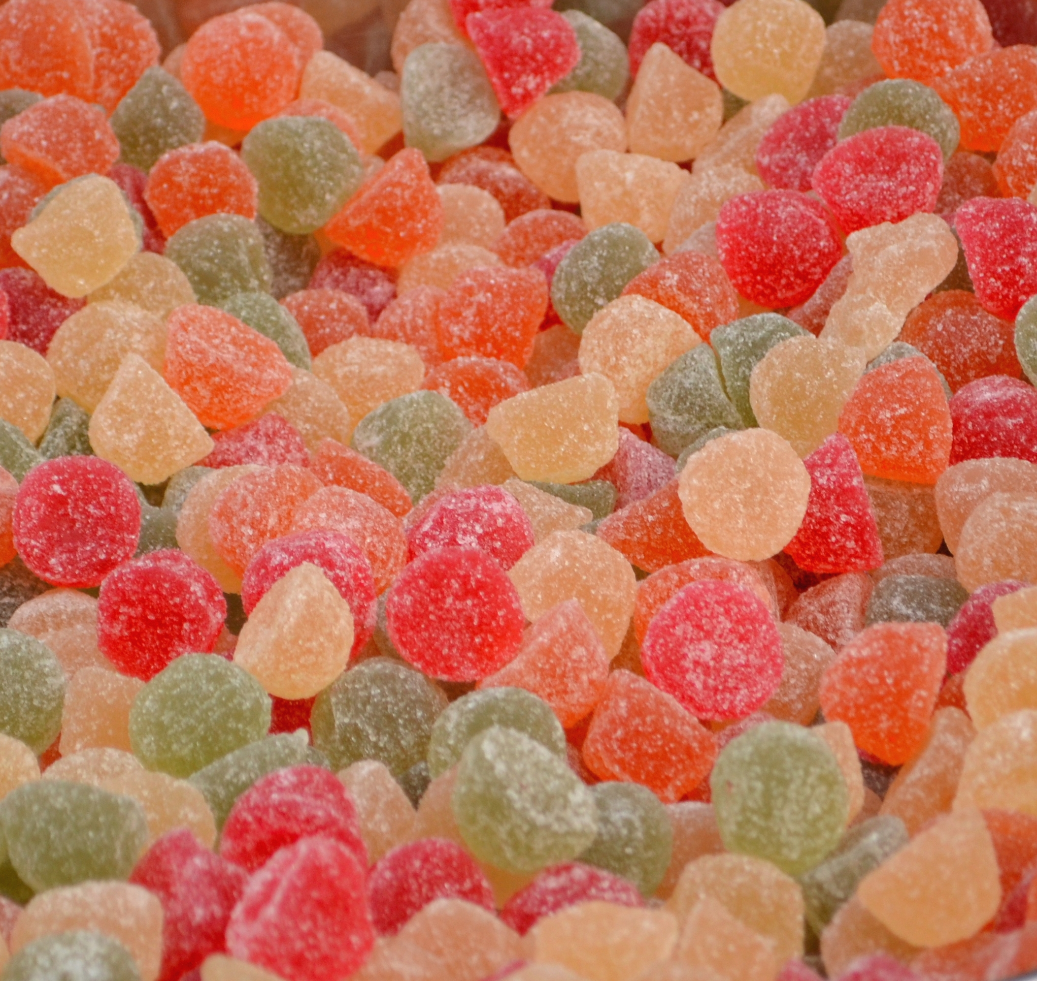 Fruit flavoured gumdrops